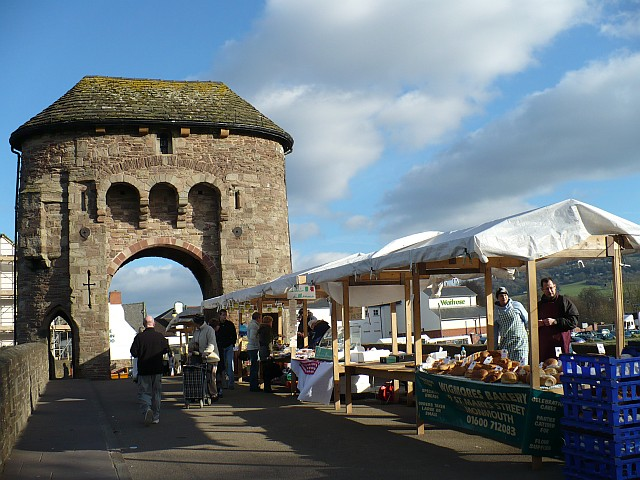 Farmers' market on Monnow Bridge